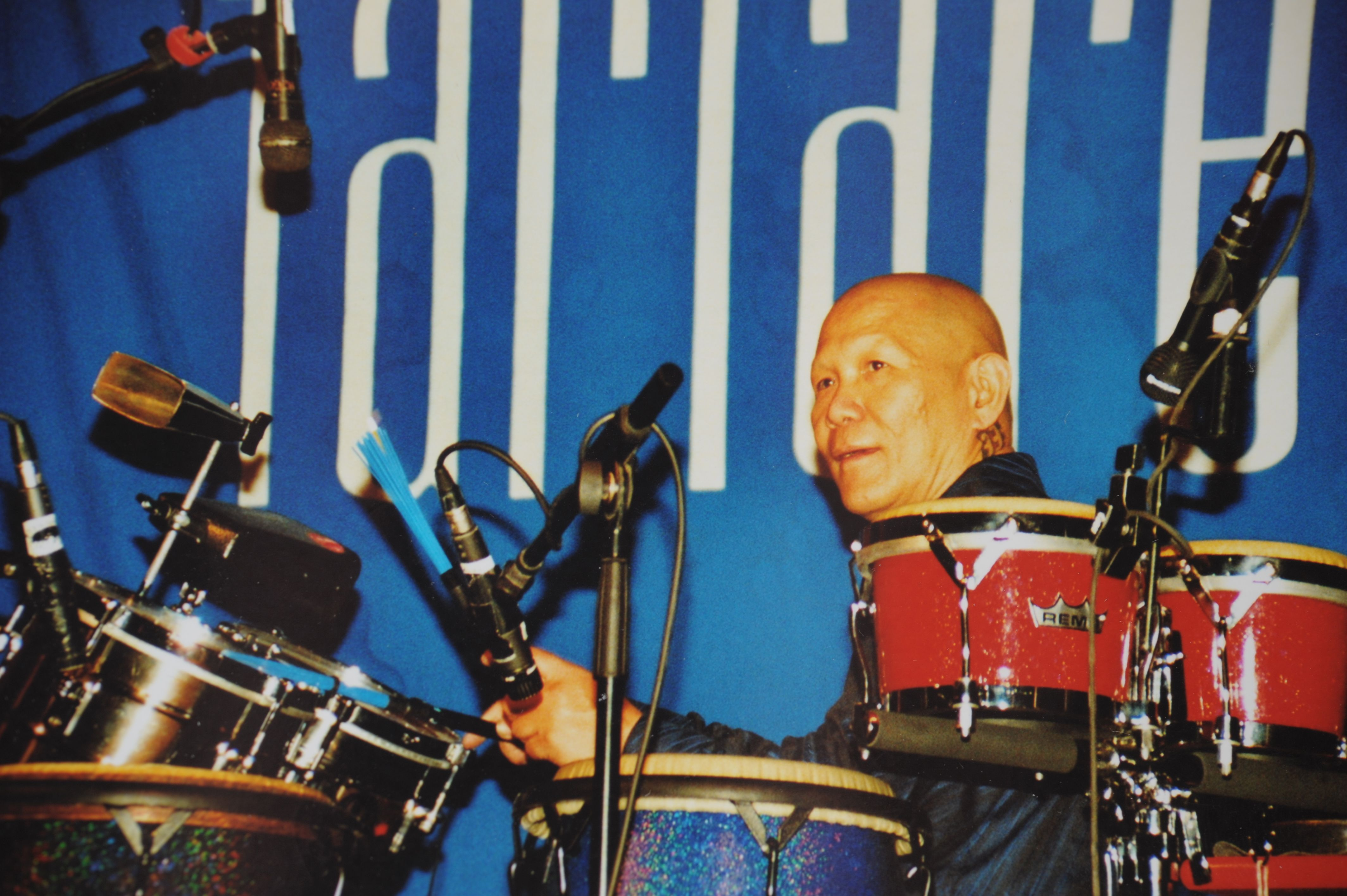 Drum artist Nippy Noya in concert with Farfarello in the Music Hall Worpswede Germany